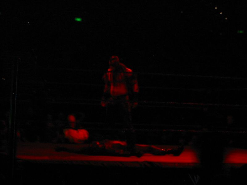 Boogieman and Orlando Taken on 5 March at the Boondall Entertainment Centre